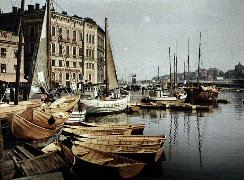 Boats at Mälartorget. Stockholm 1938.